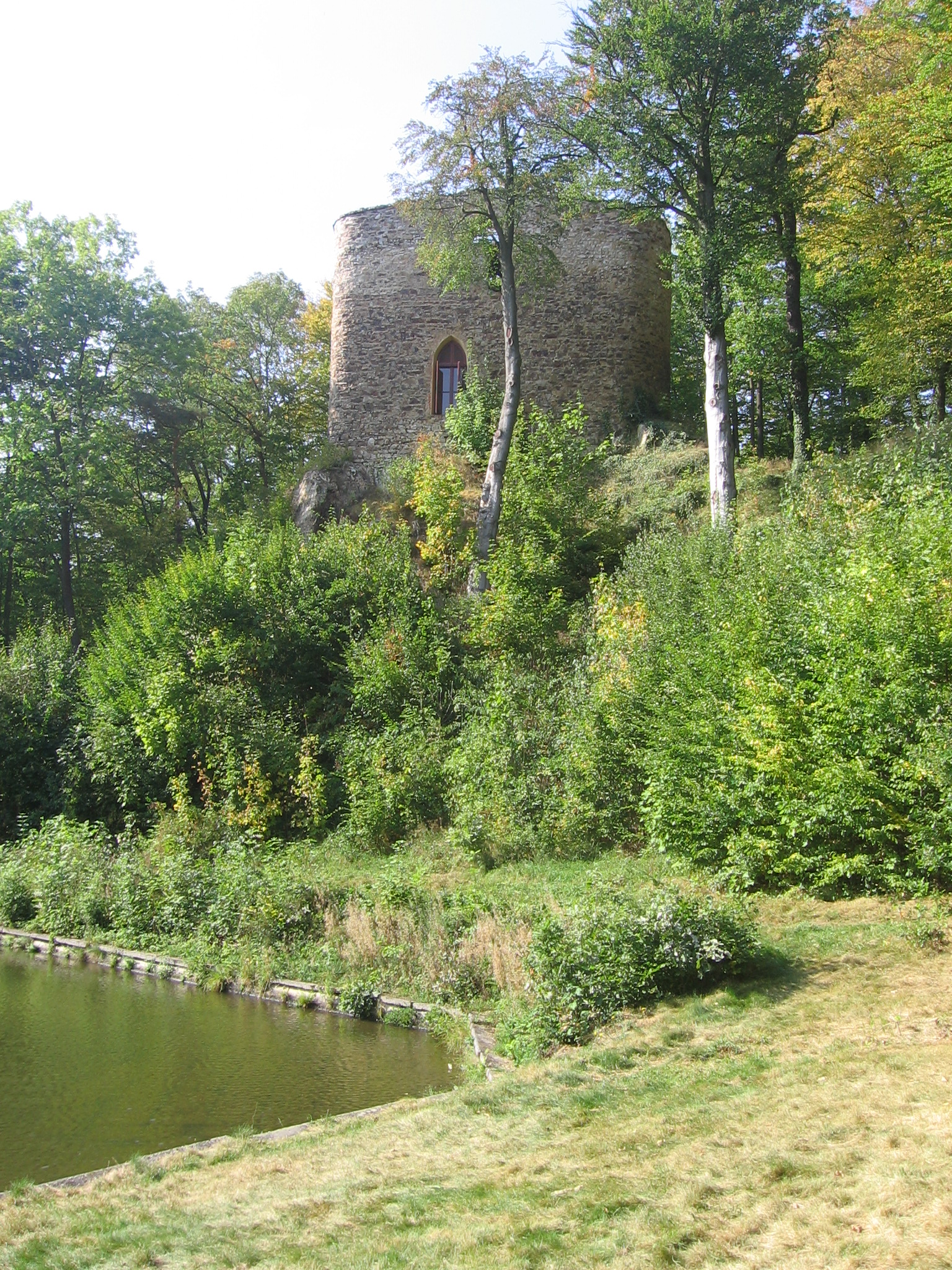 Březina - reconstructed ruins of the castle, (Rokycany District, Czech Republic)